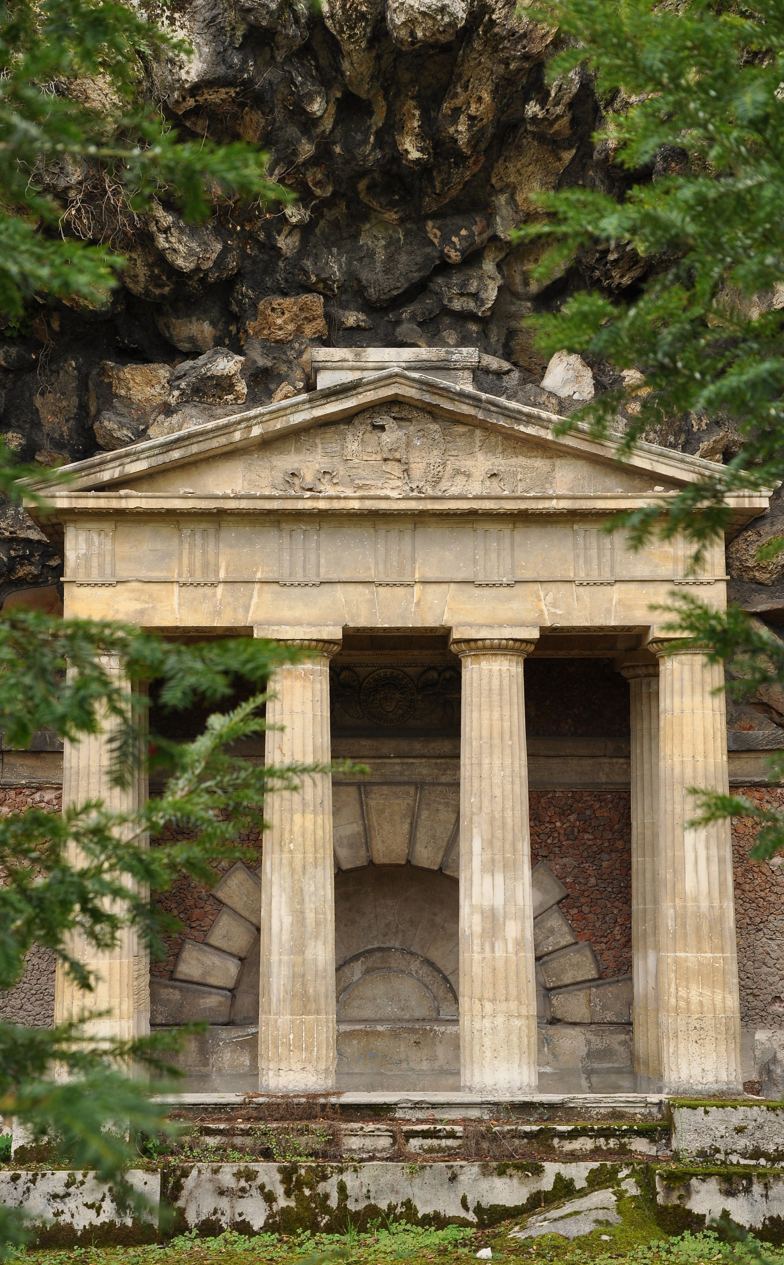 Decoration in Parc of Folie Saint-James in Neuilly-sur-Seine near Paris